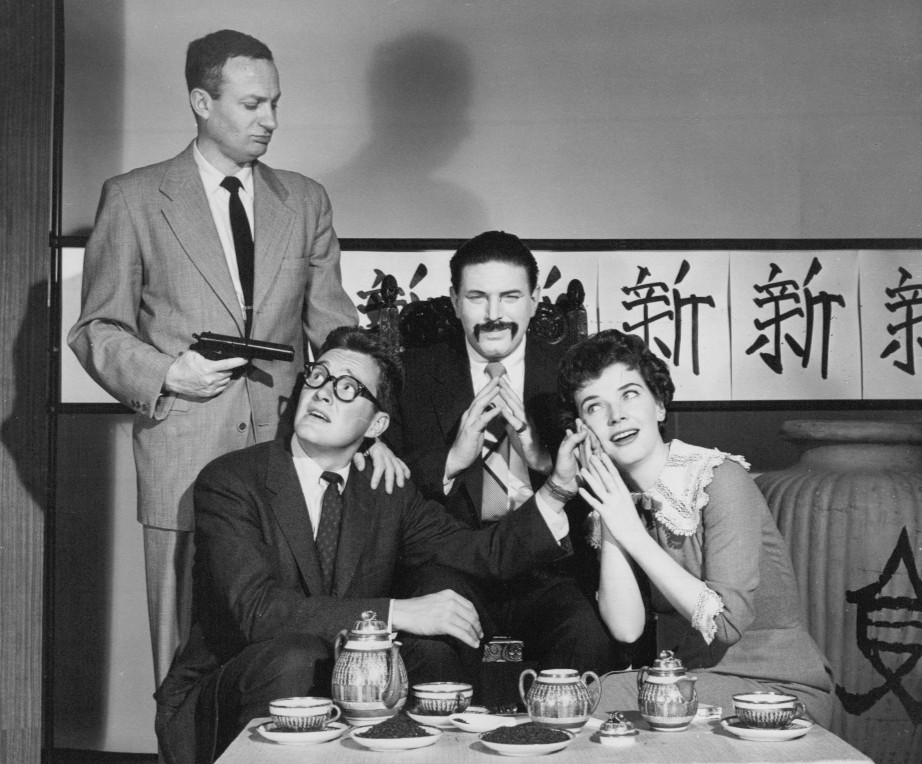 Scene from The Elgin Hour presentation of San Francisco Fracas. Joe Mantell holds a gun on seated Orson Bean, Theodore Bikel and Polly Bergen.